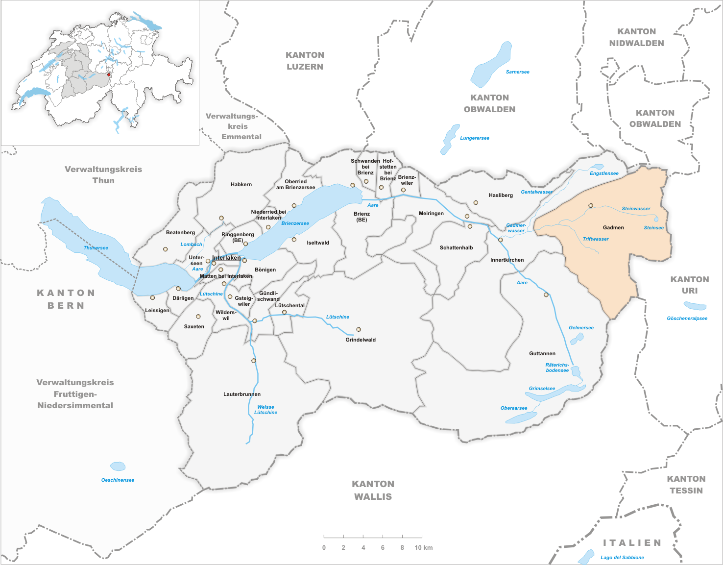 Municipality Gadmen